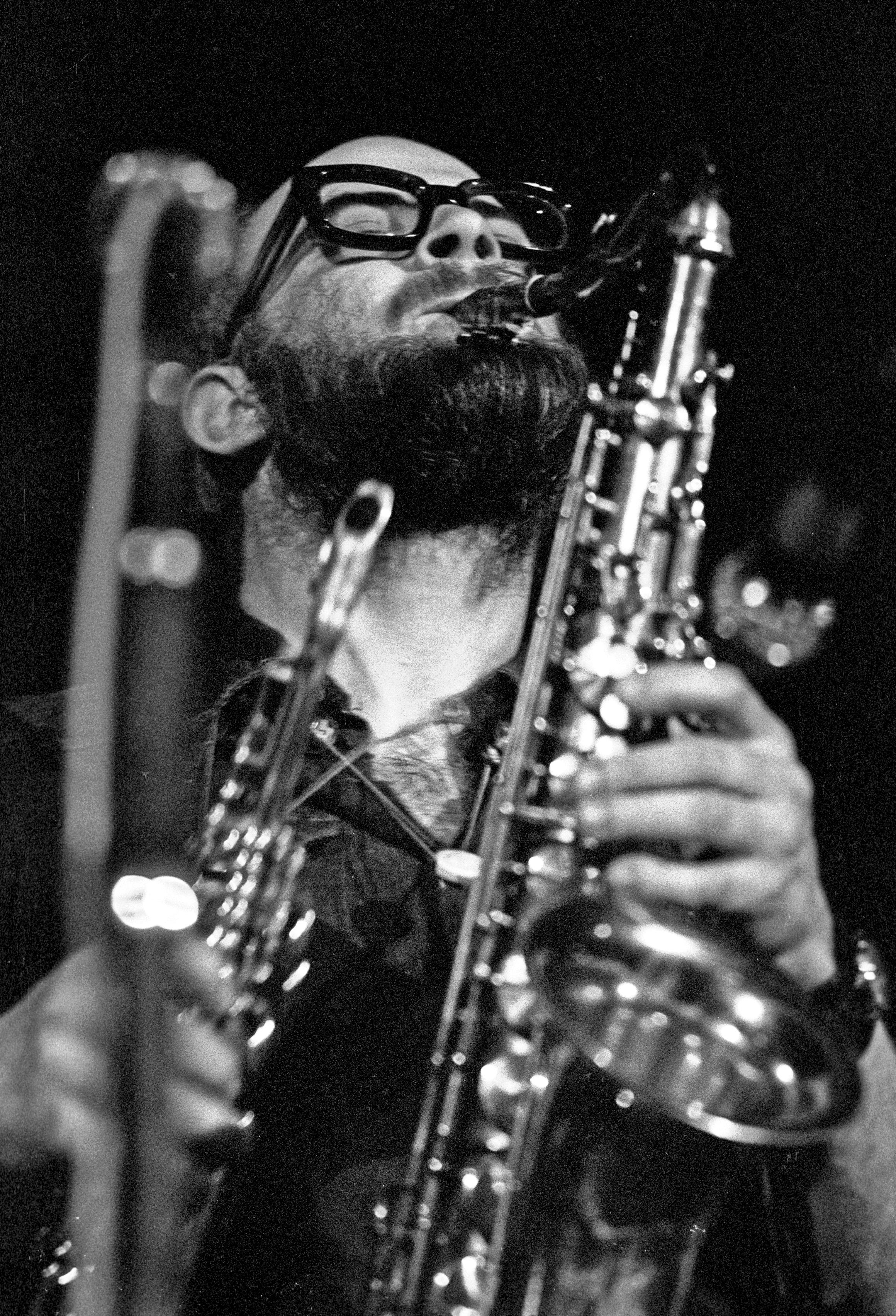 Dick Heckstall-Smith Group 1701730003 Dick Heckstall-Smith Group, Ernst-Merck-Halle Hamburg: The Master Himself